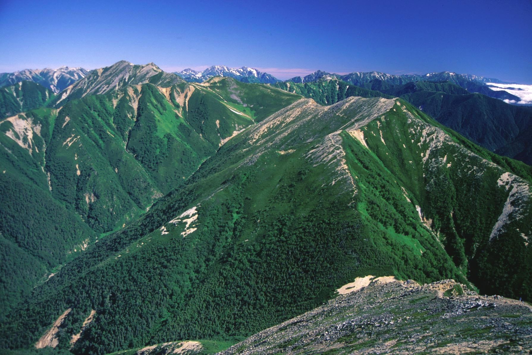 Mount Yokotoshi and Mount Otensho seen from Mount Jōnen in Jonen Mountains (Hida Mountains), Matsumoto and Azumino, Nagano Prefecture, Japan.